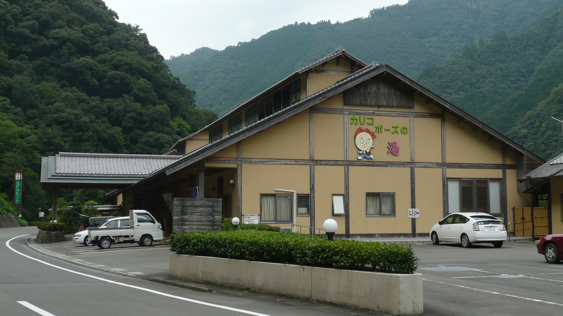 Nishimera Onsen Yuta-to (Nishimera Village, Miyazaki, Japan).